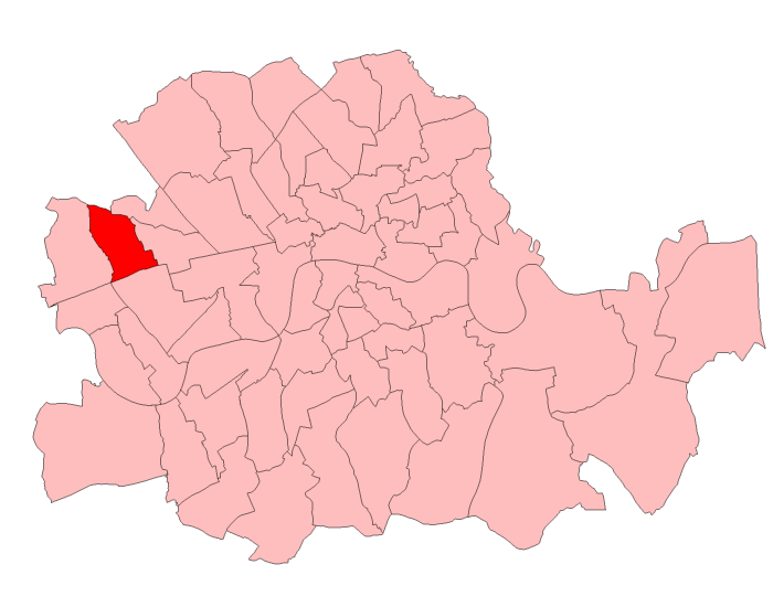 A map of Kensington North constituency within the London County Council area, as it existed from 1918 to 1949.